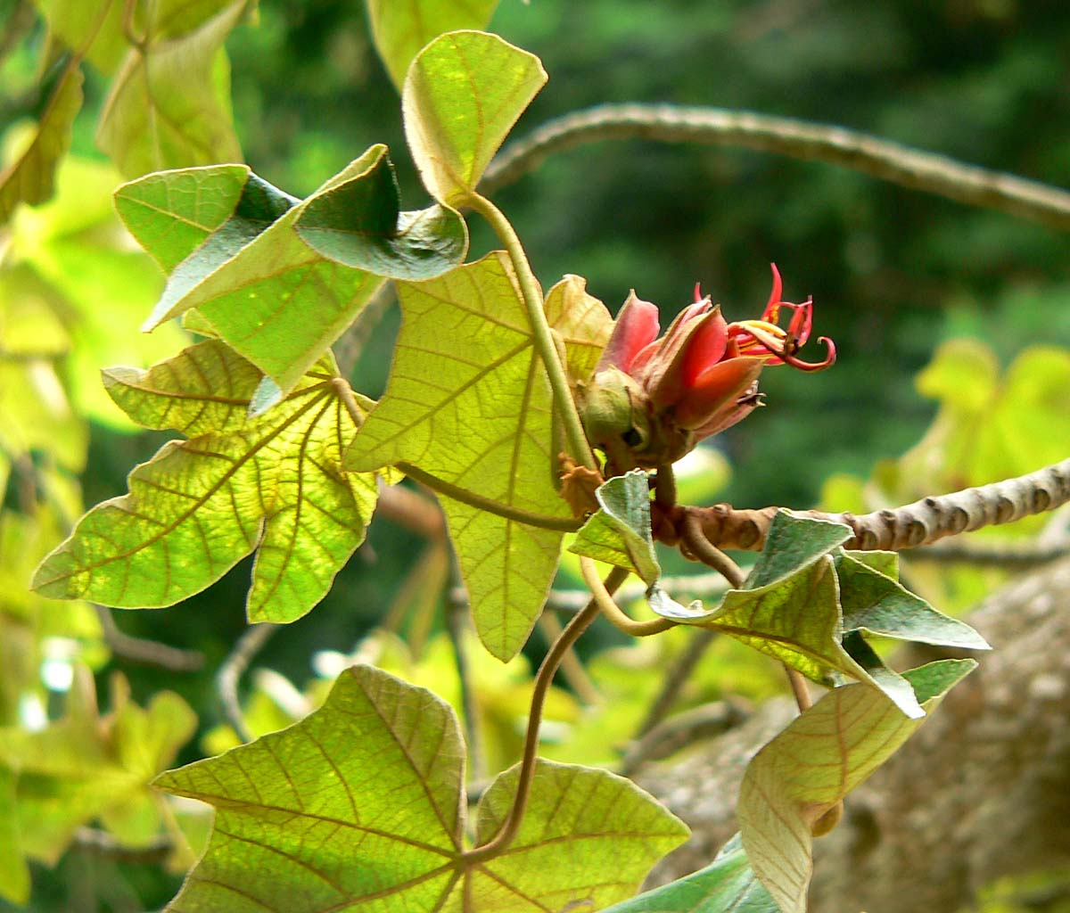 Photo of Chiranthodendron pentadactylon (Mexican hand tree) at the San Francisco Botanical Garden